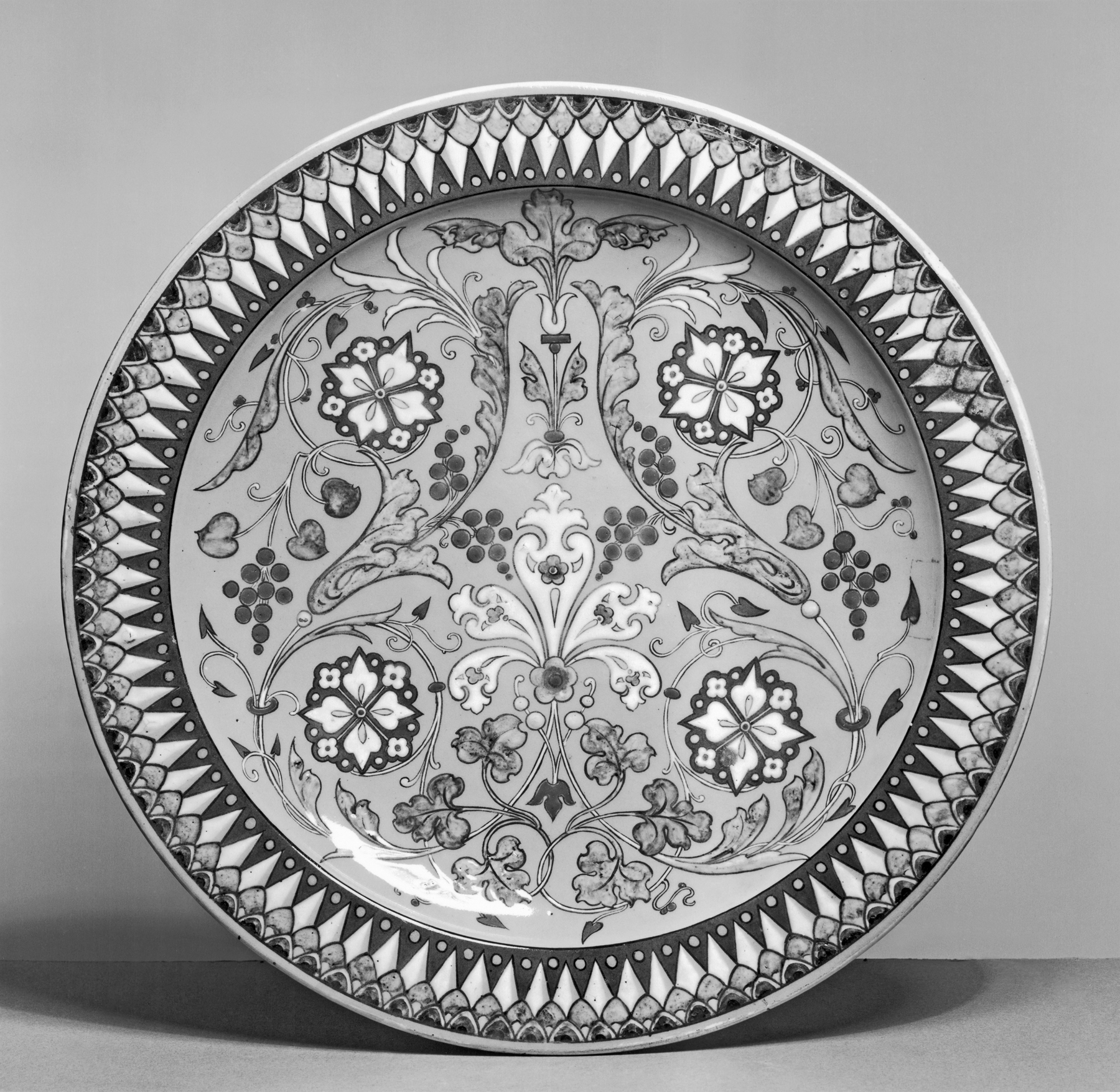 Deck was France's most innovative and influential ceramist during the 19th century. A native of Alsace, on the German border, he came to Paris in 1851 and began working for a stove-maker. By 1858, he had established his own kiln and workshop, which became famous for earthenware brightly glazed in various exotic and historical styles.